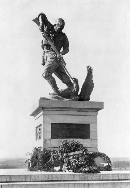 The Australian 2nd Division memorial at Mont St Quentin in France following its unveiling ceremony on 30 August 1925. It was destroyed by the German military in 1940.